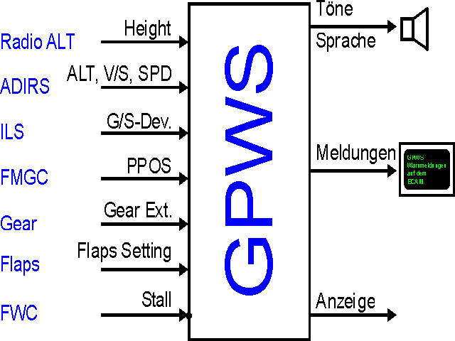 GPWS Signal Flow according to Airbus A320 Manual